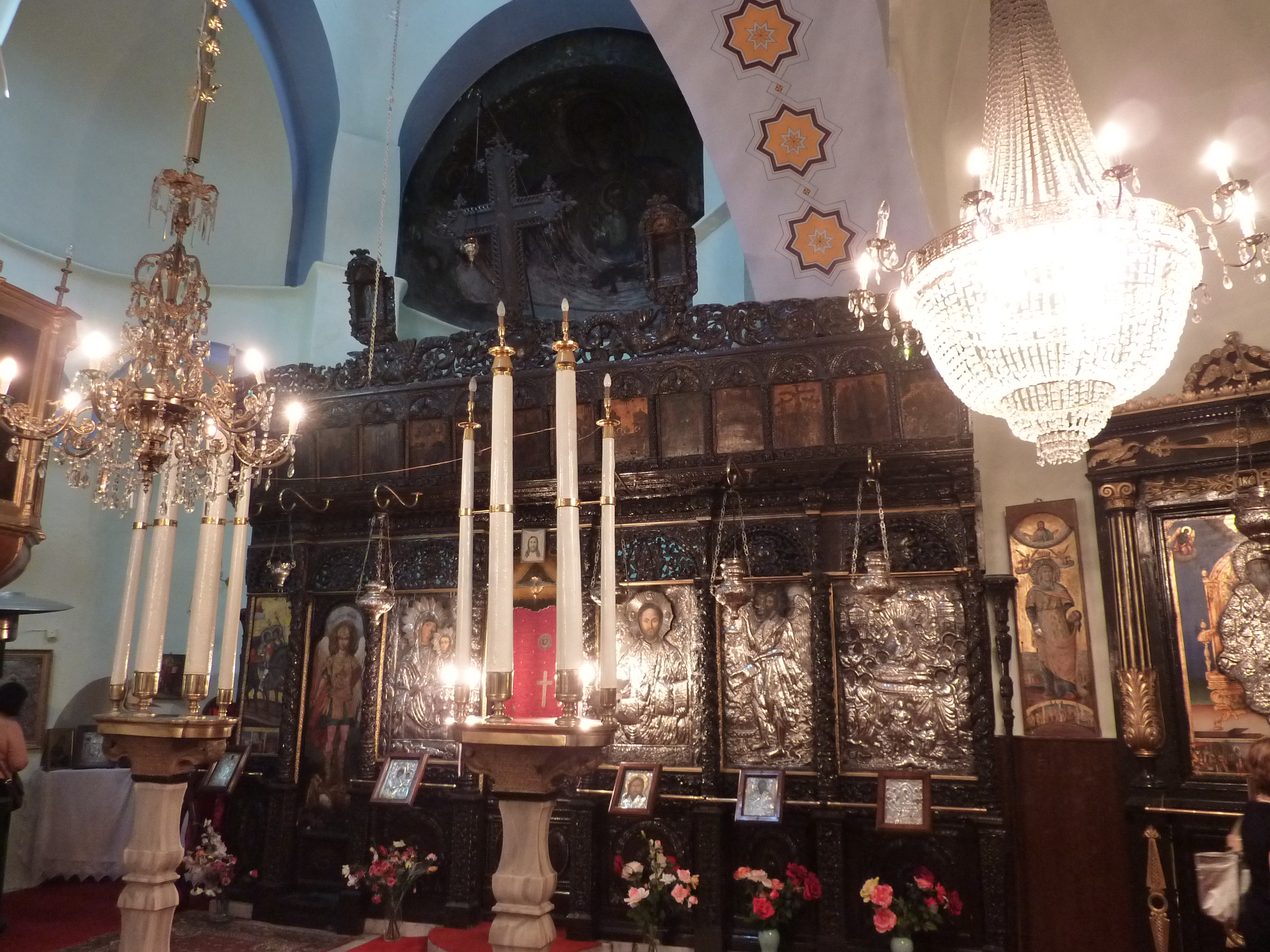 Church of St Mary of the Mongols, Istanbul